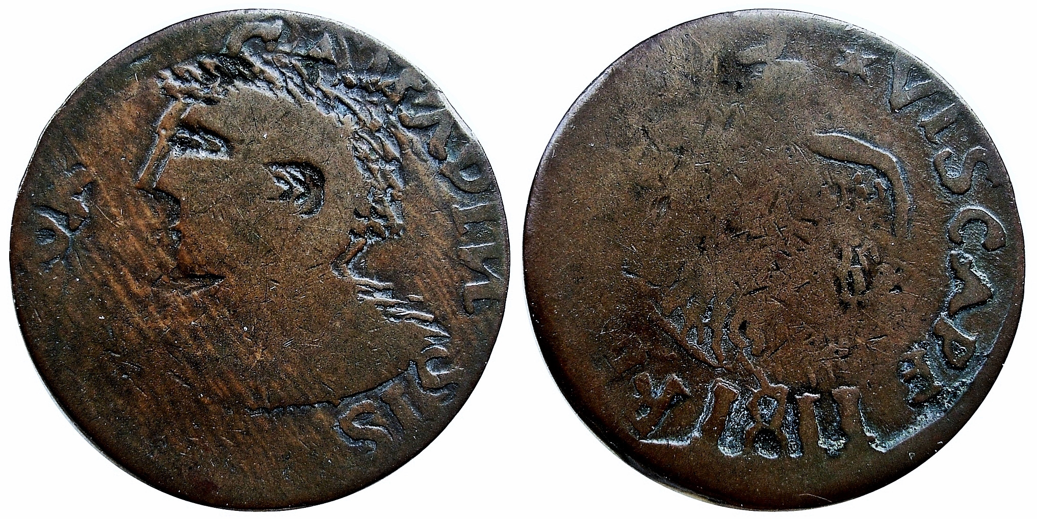 "Rosa Americana" for the Breton 558- VC-2 image